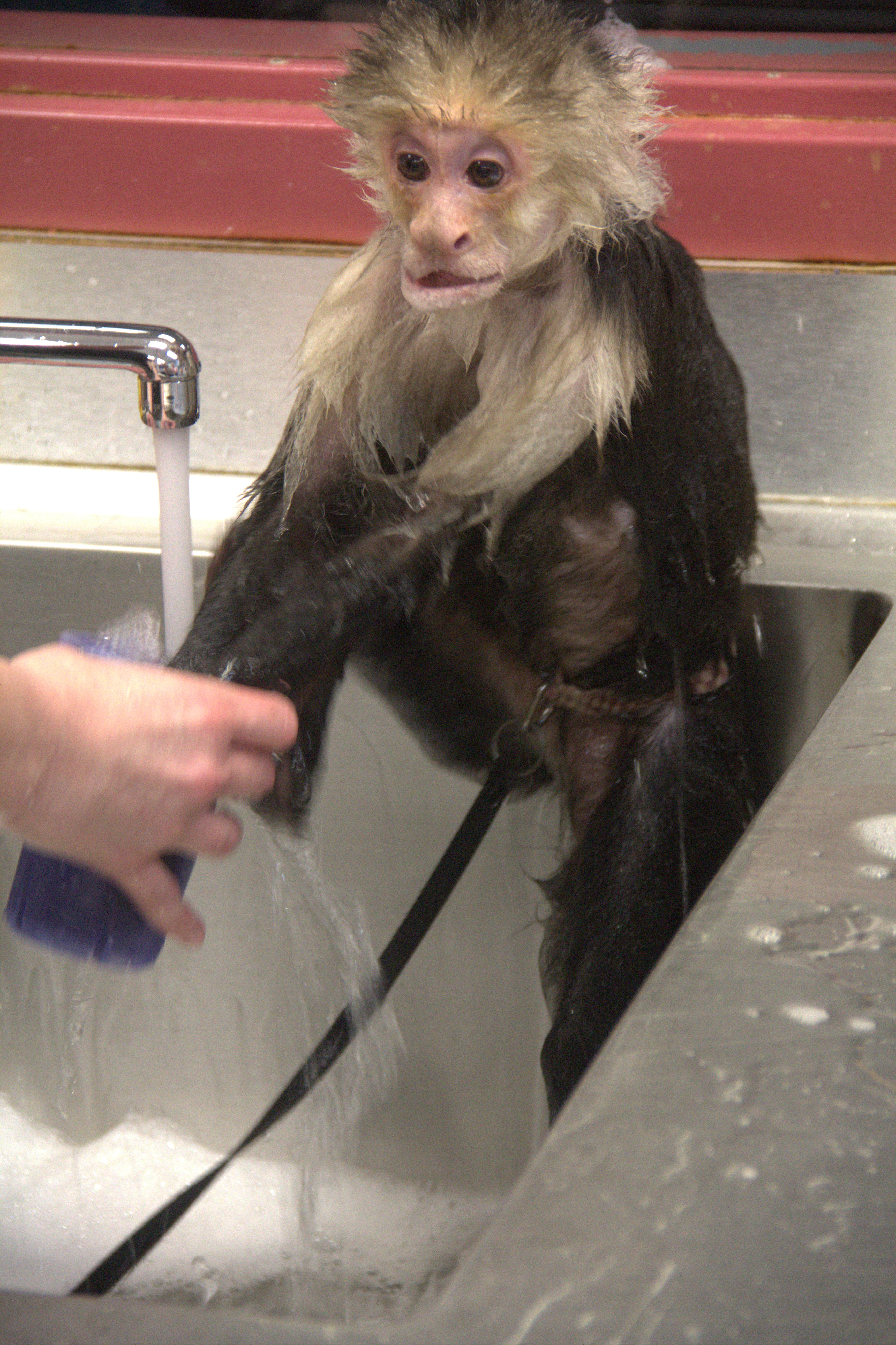 Helping Hands - Monkey Helpers Servicemonkey washing itself